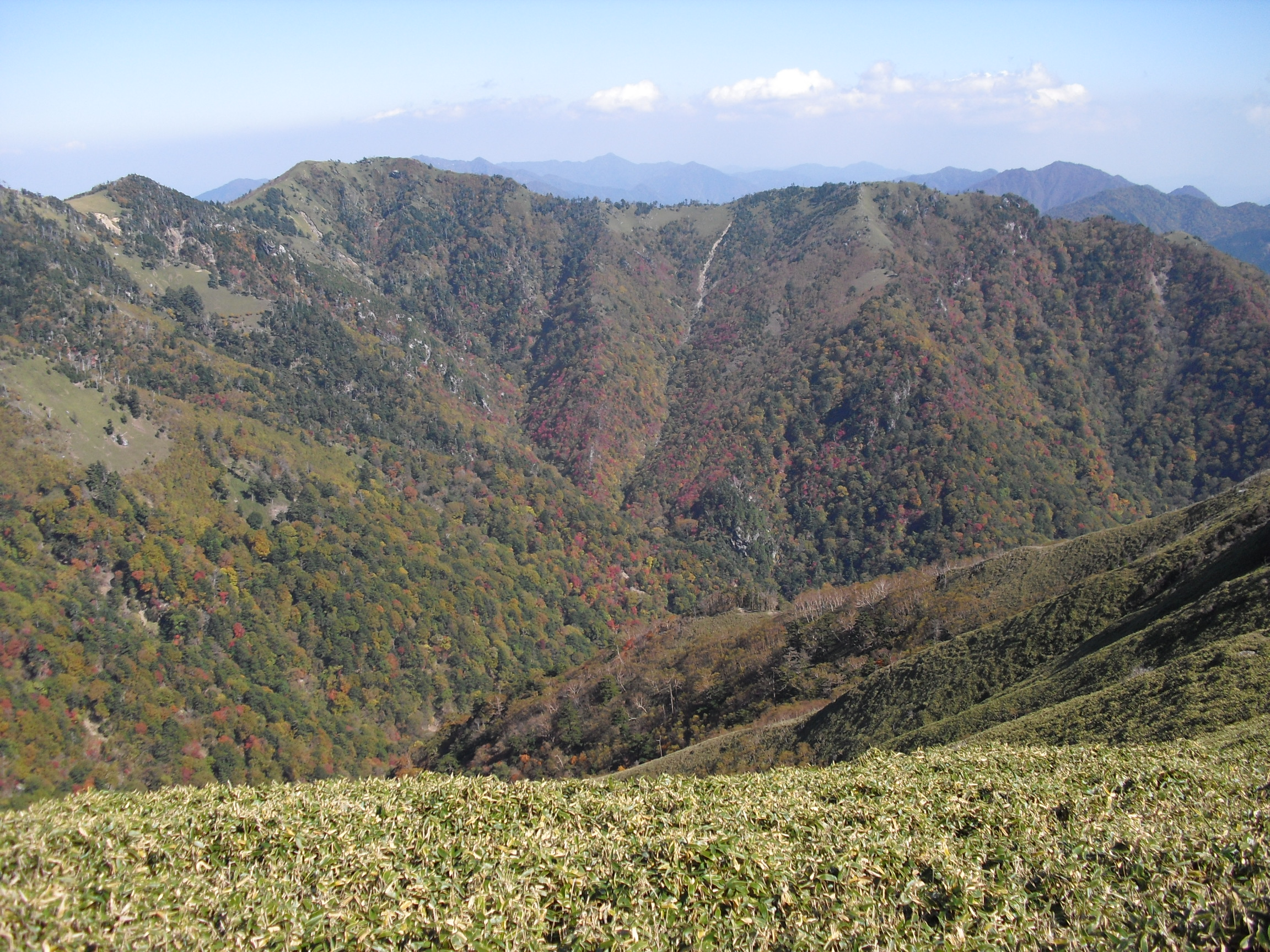 Mount Ichinomori as seen from the west by south. Taken from Mount Jirogyu.